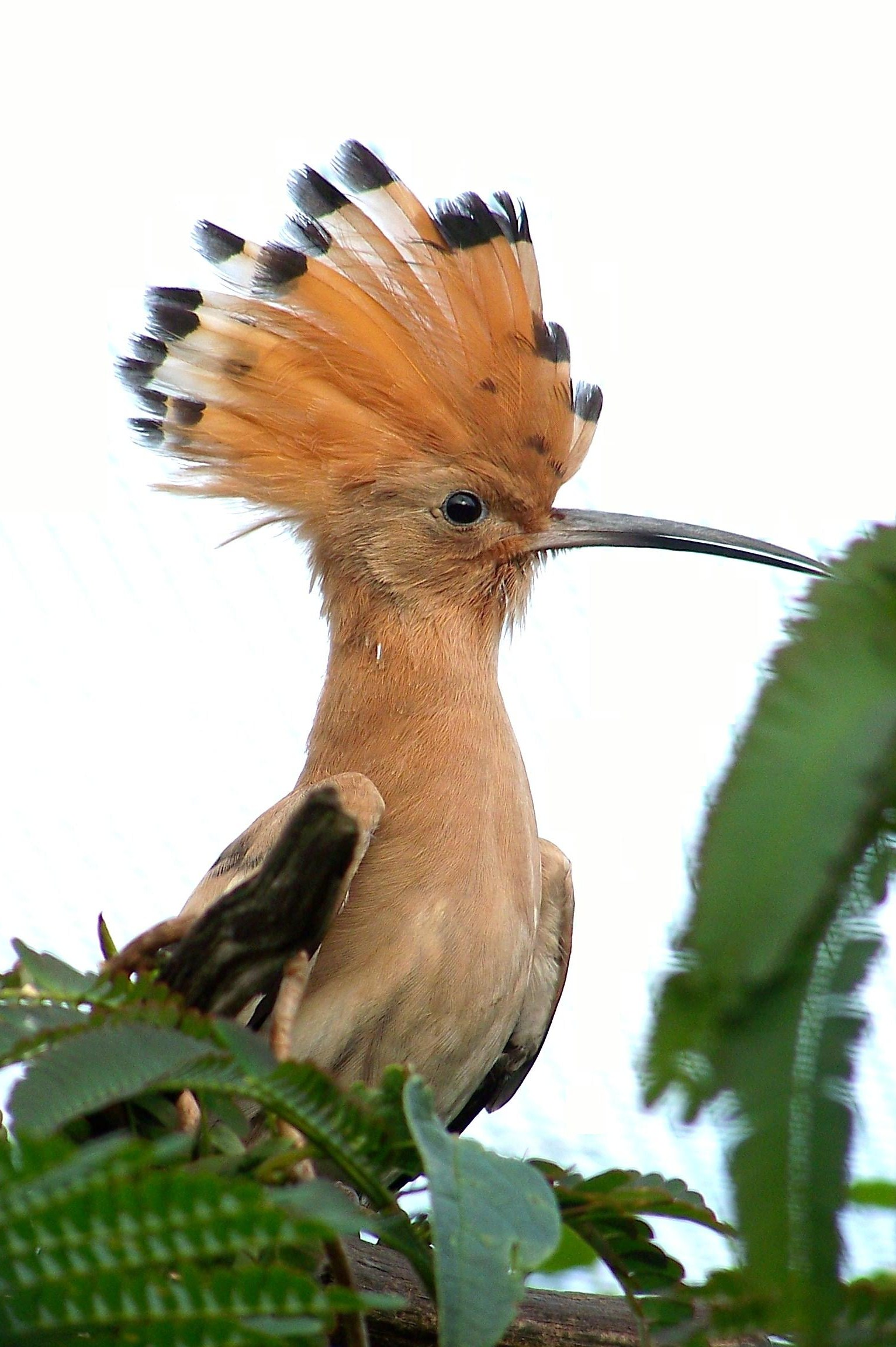 Upupa epops